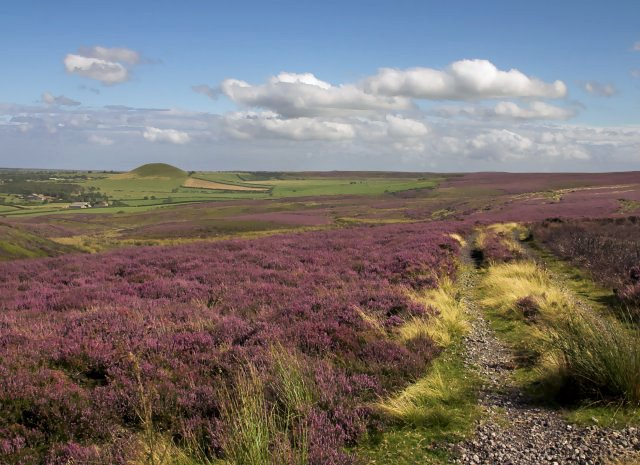 Heath on the North York Moors. Photograph by Colin Grice (4wd) taken in August 2005.